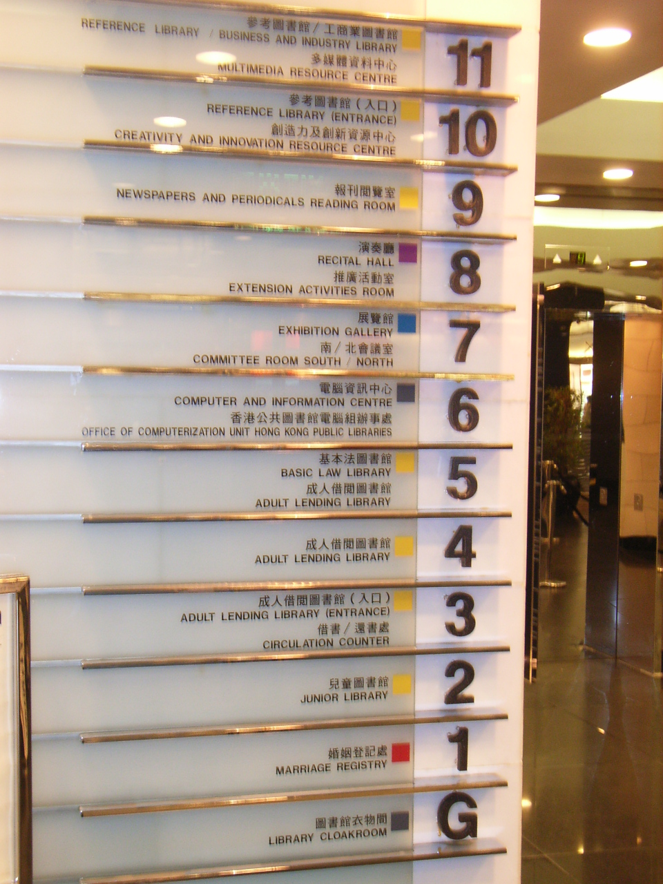 香港大會堂公共圖書館位於zh:香港zh:中環zh:愛丁堡廣場, City Hall, Hong Kong is located in Central, Hong Kong, Hong Kong. (Photo author:en:User:Chow Meisy).